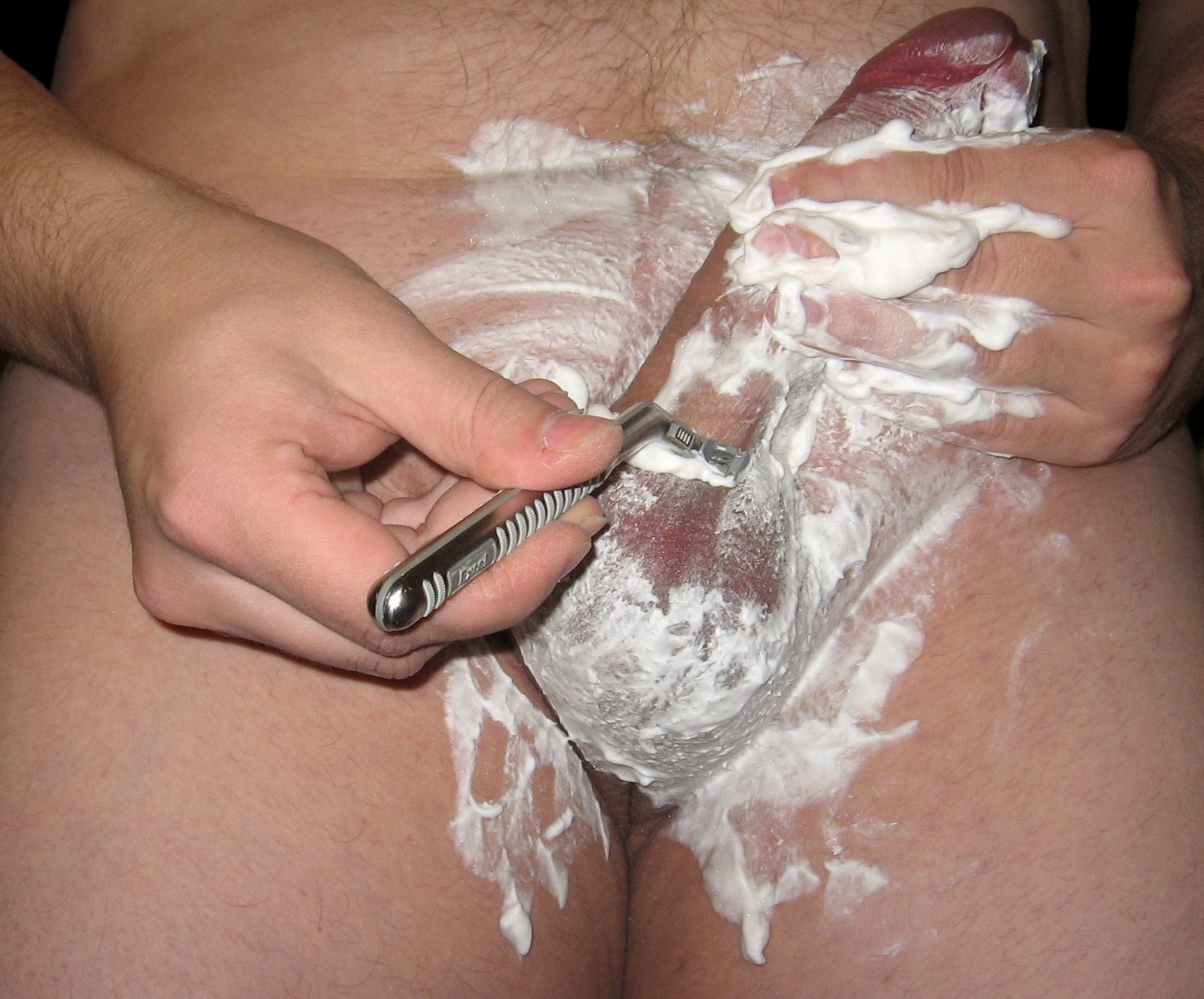 A male is shaving his scrotum and the base of his penis. Erection, that is seen in the image, makes it easier to shave the penile area.